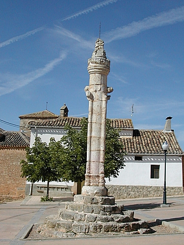 Picture taken in the square of Puebla de Eca